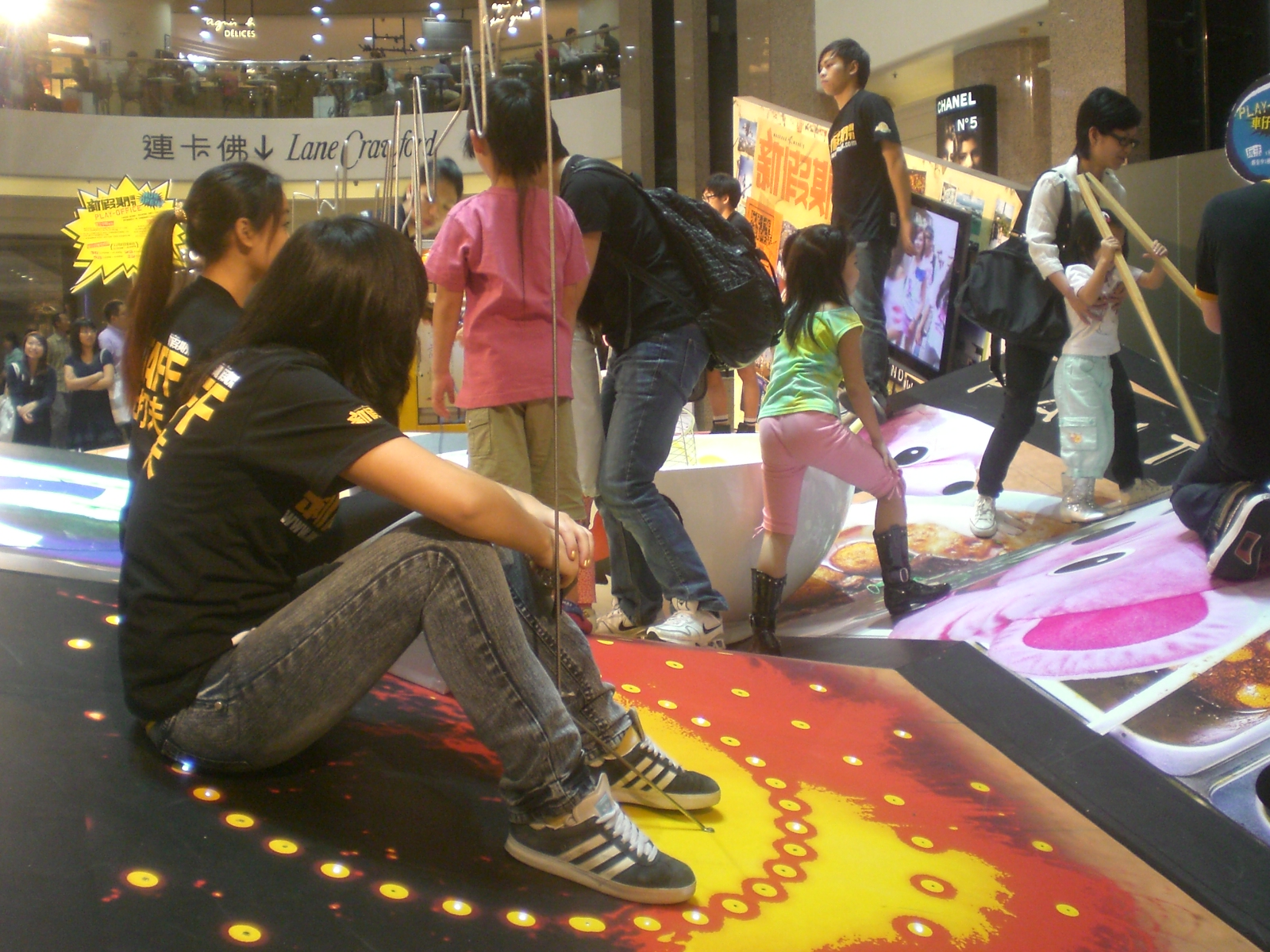 新假期展覽 @ 香港時代廣場 on November, 2009